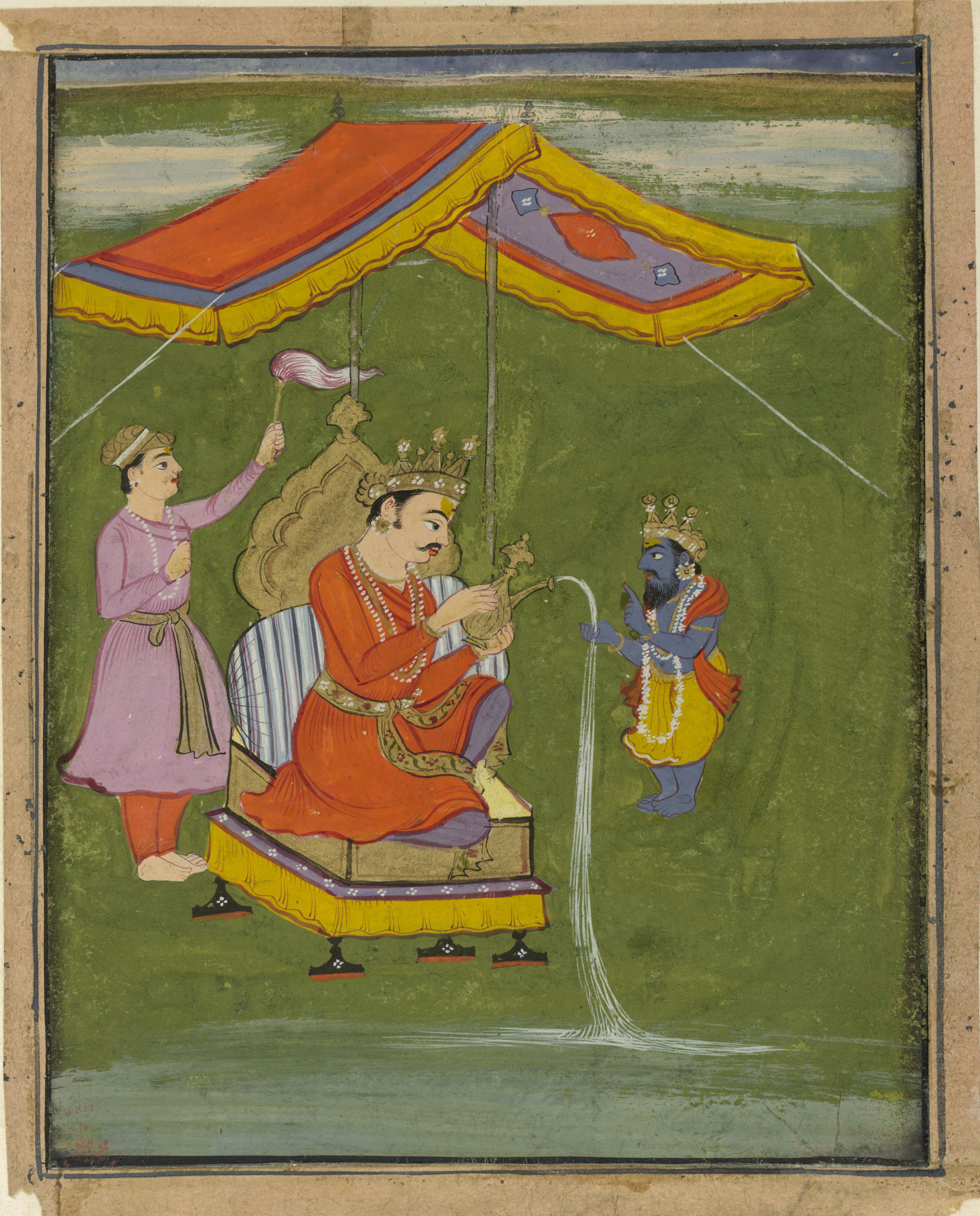 Album leaf (recto); painting. Deity. Viṣṇu as Vāmana accepting water from Bali as token of a gift. Painted on paper.